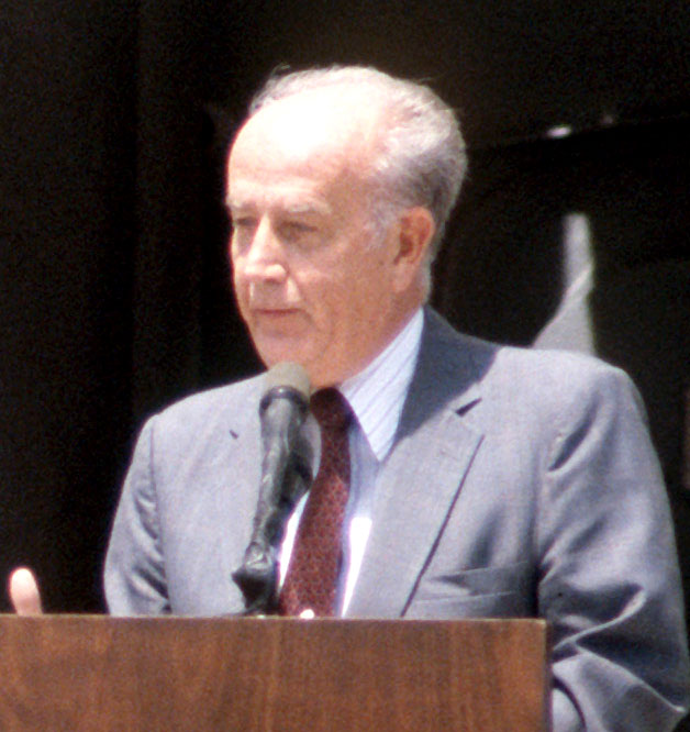 Maryland governor William Donald Schaefer speaks during the commissioning of the guided missile cruiser USS Antietam (CG 54).